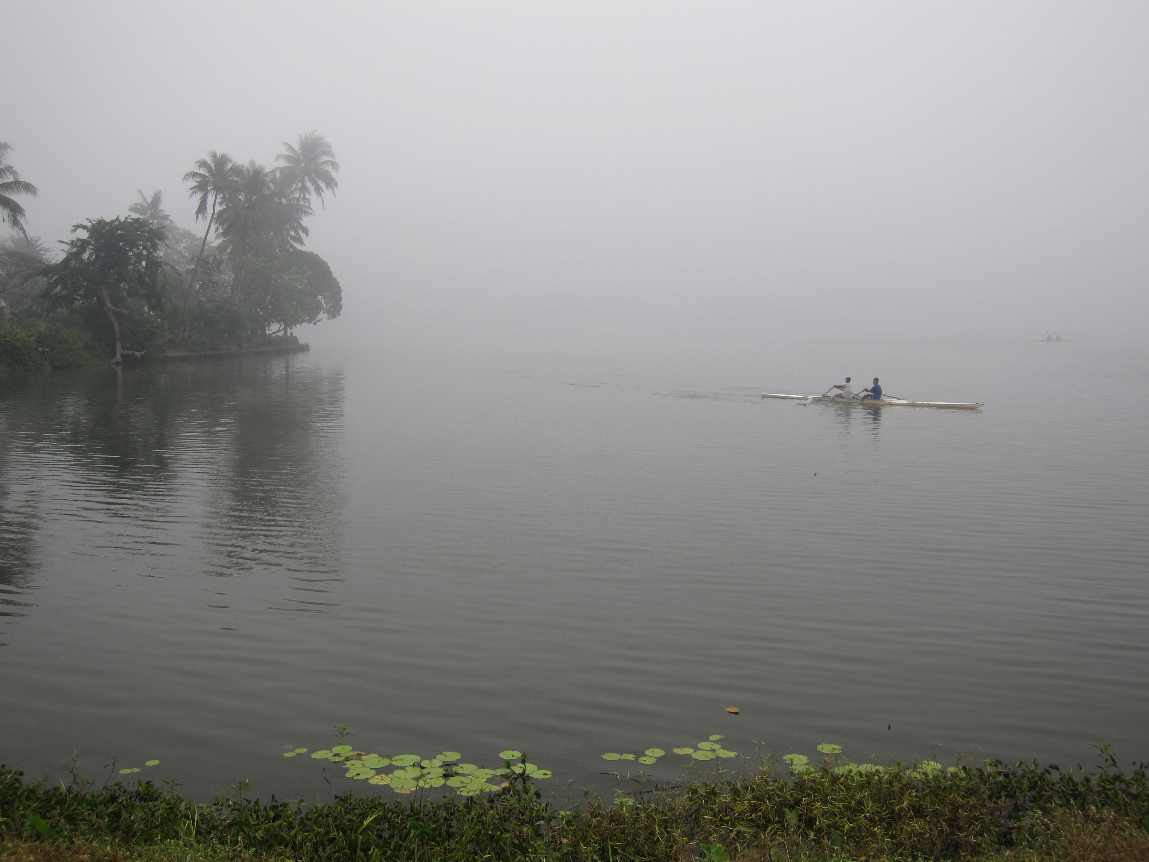 Inya Lake in the morning mist, Yangon, Burma